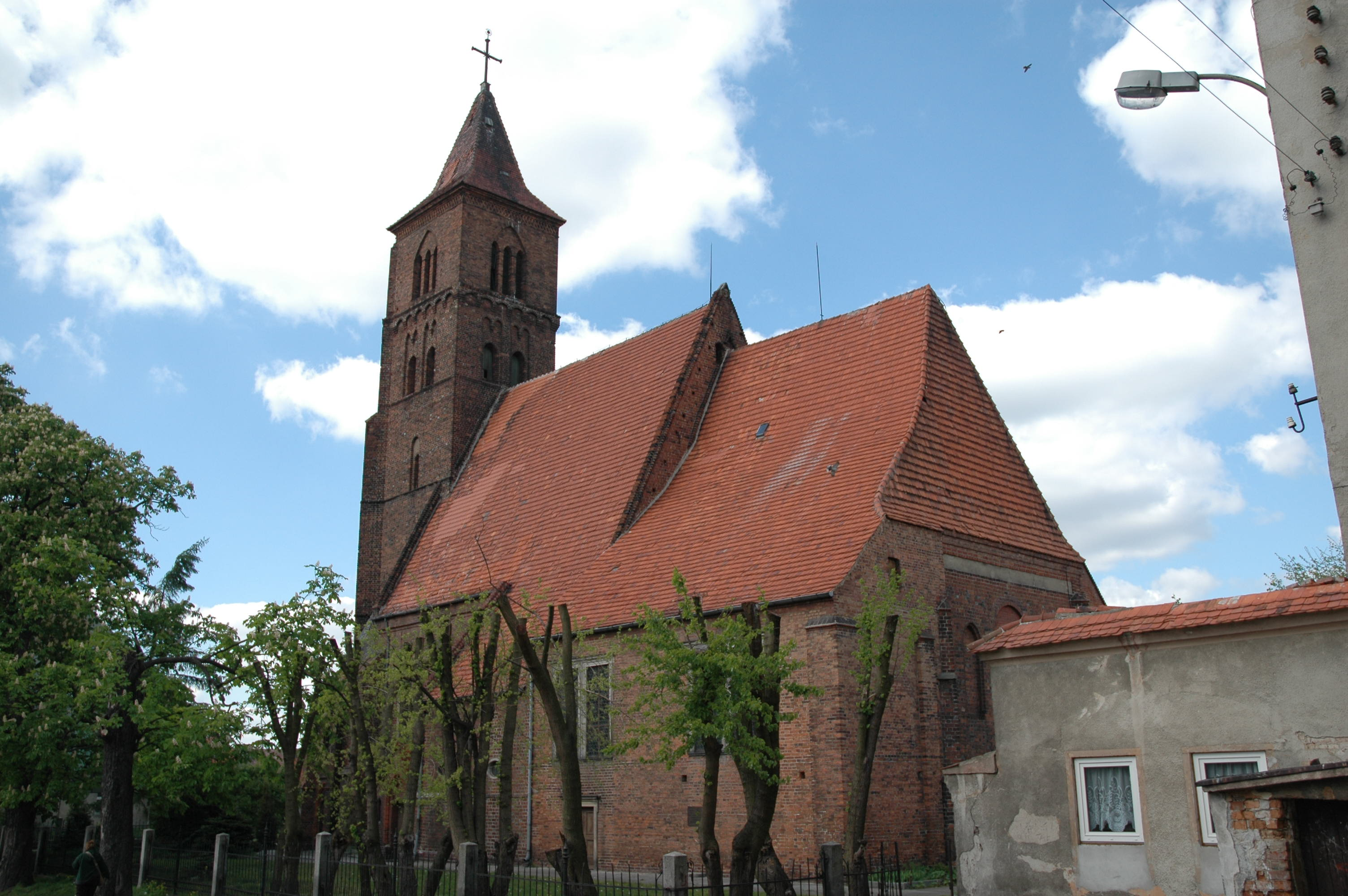 Saint James church in Prusice, Poland